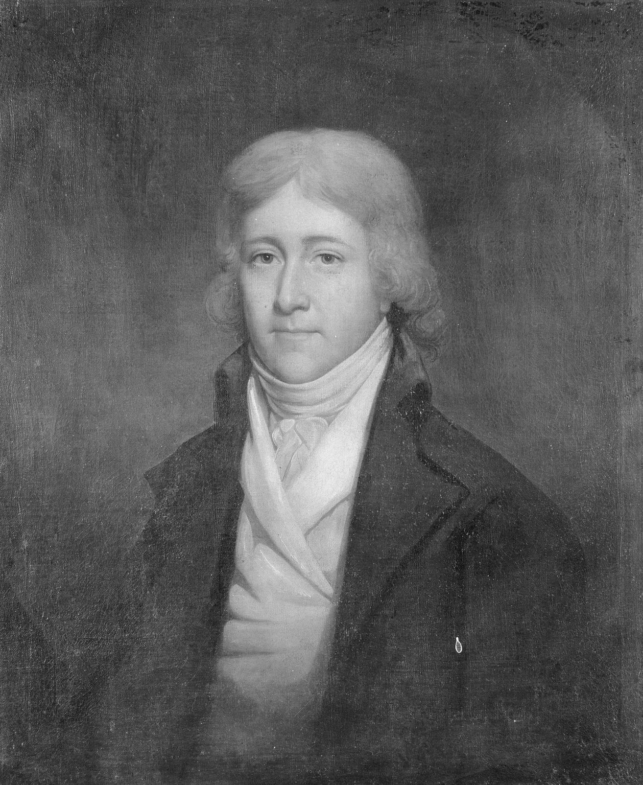 Artist Peale, Rembrandt, 1778-1860. Title Charles Carroll of Homewood. Date 1797, 1798. Dimensions/Medium 30 x 25 in.